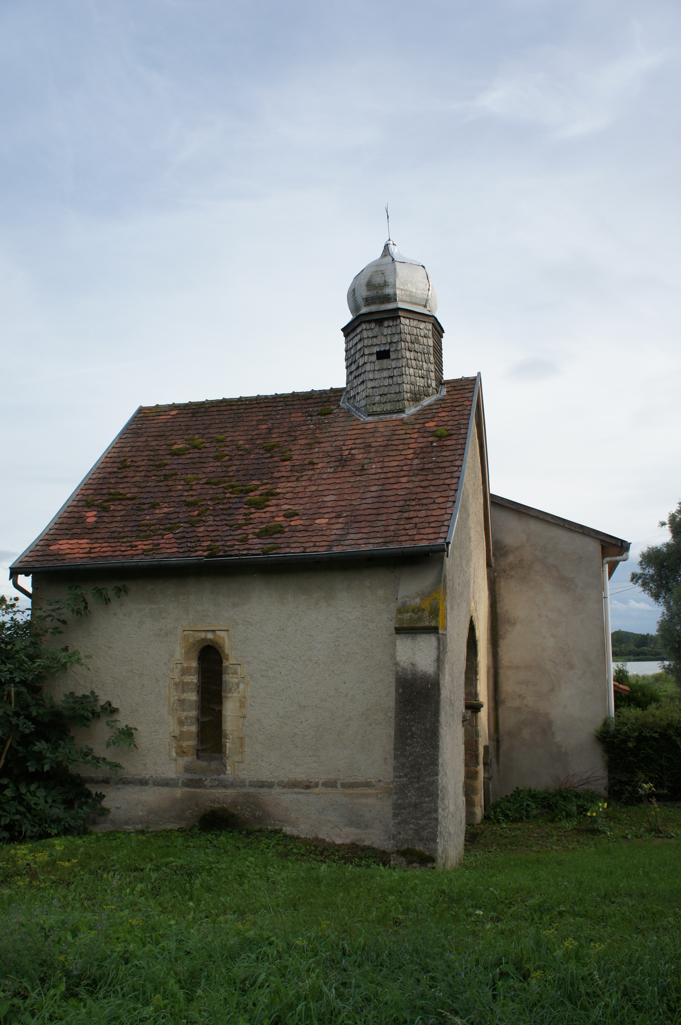 Gelucourt, Lorraine, France : remains of the Knights Templar's chapel